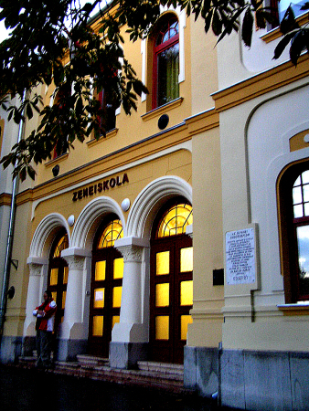 Exterior of the former Synagogue building, now Music school, Gyula, Hungary.